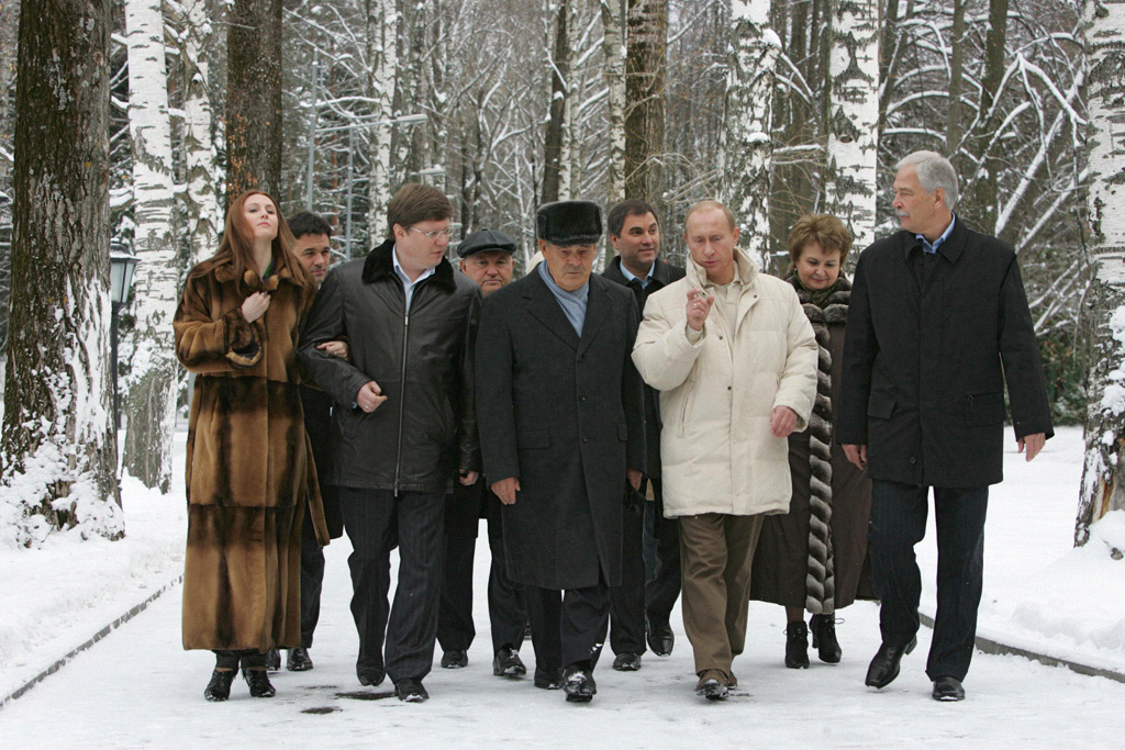 “The president meets United Russia representatives”. November 17, 2007. From left in the foreground, ballerina Svetlana Zakharova, a member of the United Russia party, Andrei Isayev, the head of the State Duma comittee on labour and social policy, President of Tatarstan and Co-Chairman of the United Russia party Mintimer Shaimiyev, President Vladimir Putin and United Russia leader Boris Gryzlov meeting at the Rus state residence in Zavidovo.